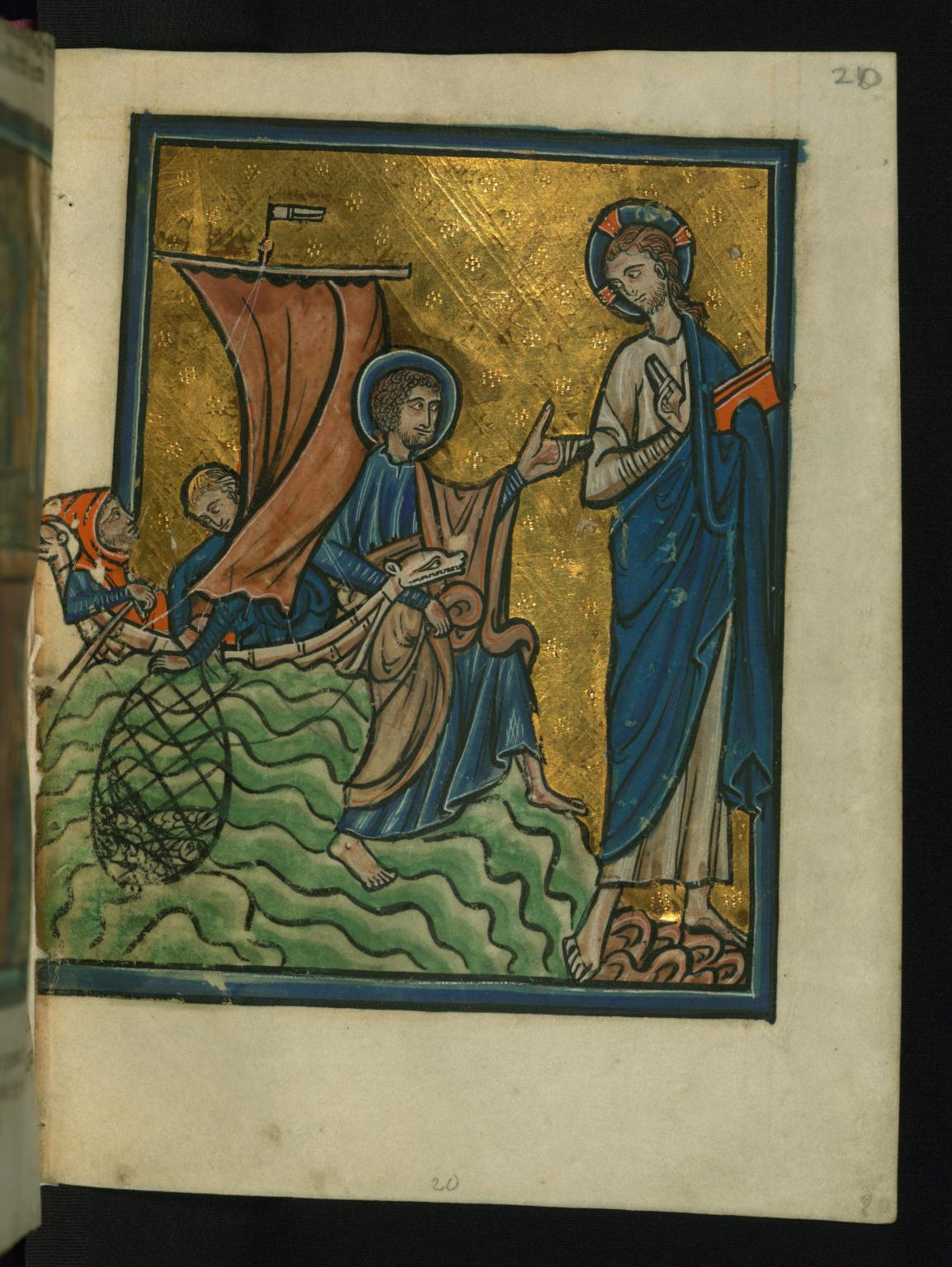 This page from Walters manuscript W.106 depicts a scene from the life of Christ. After the Resurrection of Christ, Simon Peter went fishing on Lake Tiberias with several other disciples, including John. They caught nothing that night, but just as day was breaking, Christ stood on the beach. They did not recognize him at first. He told them to cast their net on the right side of the boat. Suddenly, they could not haul in the net for all the fish they had caught. John then said to Simon Peter, "It is the Lord." Simon Peter put on his clothes and sprang into the sea. The other disciples went to shore in the boat, because it was not far from land.